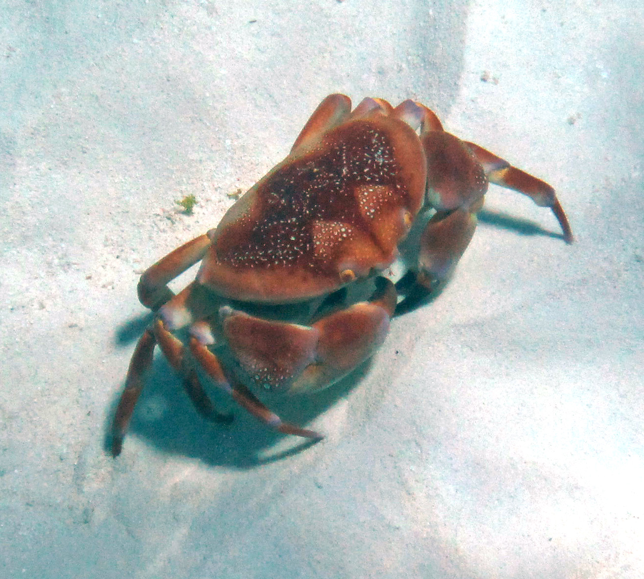 Carpilius corallinus (Herbst, 1783) - batwing coral crab on aragonite sandy seafloor next to a patch reef. Classification: Animalia, Arthropoda, Crustacea, Decapoda, Brachyura, Xanthidae Locality: Snapshot Reef, Fernandez Bay, offshore western San Salvador Island, eastern Bahamas